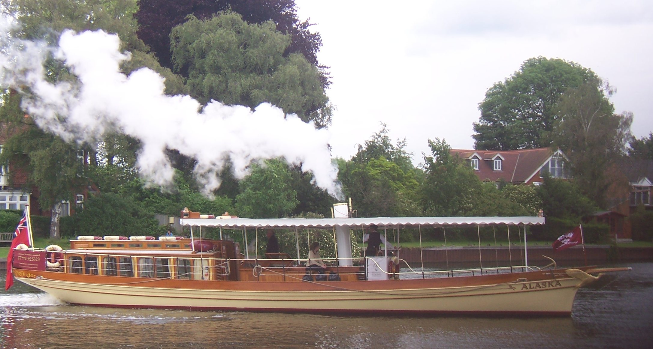 'Alaska' was built in 1883 at Bourne End by W. and J.S. Horsham and Co. and bought by Salter Bros for their Oxford to Kingston service which she ran till World War II. Rediscovered in 1974 she was restored to her former glory by 1987 and now runs with her original engine on the Thames.